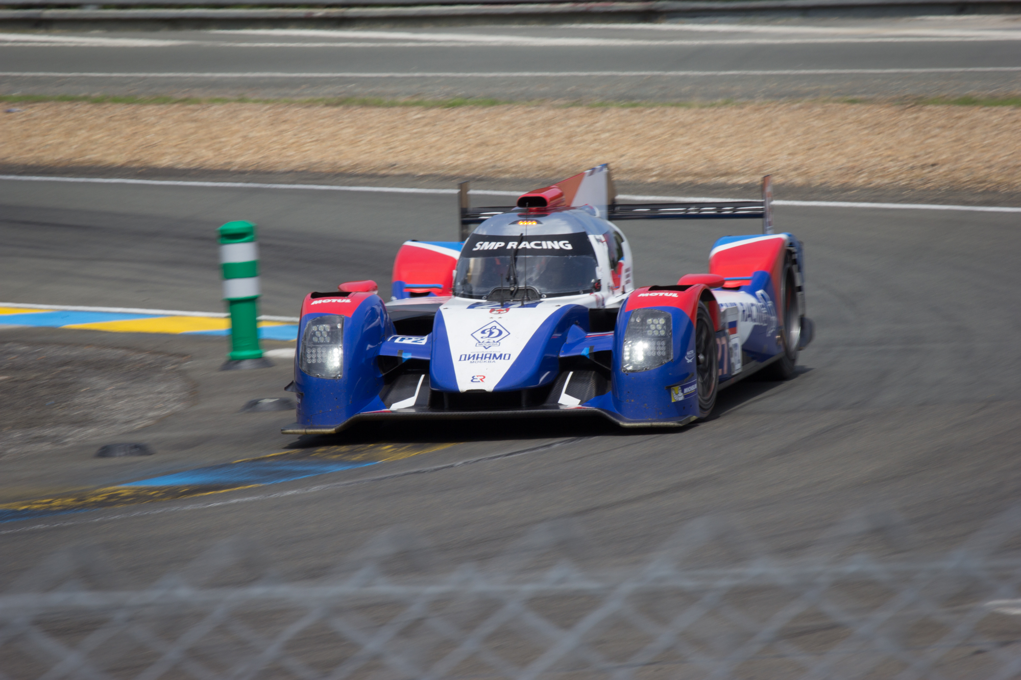 SMP Racing - BR01 Nissan